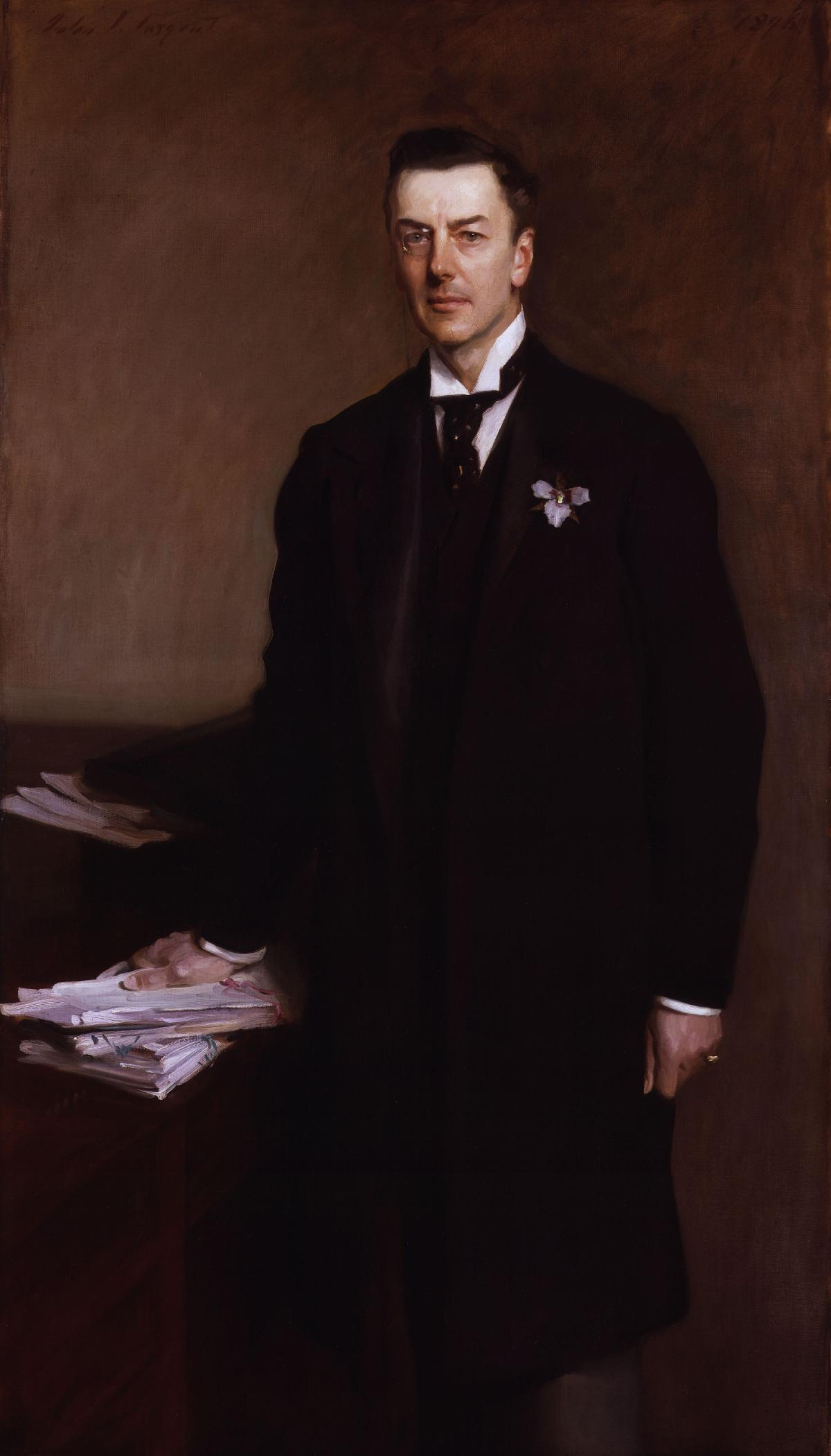 All images in this batch have been confirmed as author died before 1939 according to the official death date listed by the NPG.